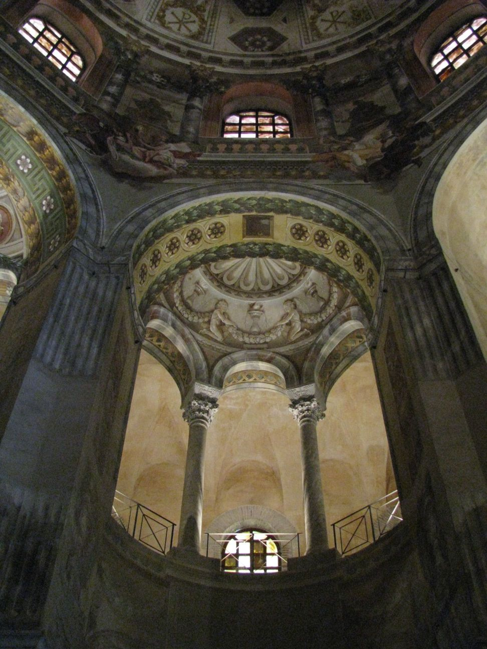 Basilica of San Vitale in Ravenna.